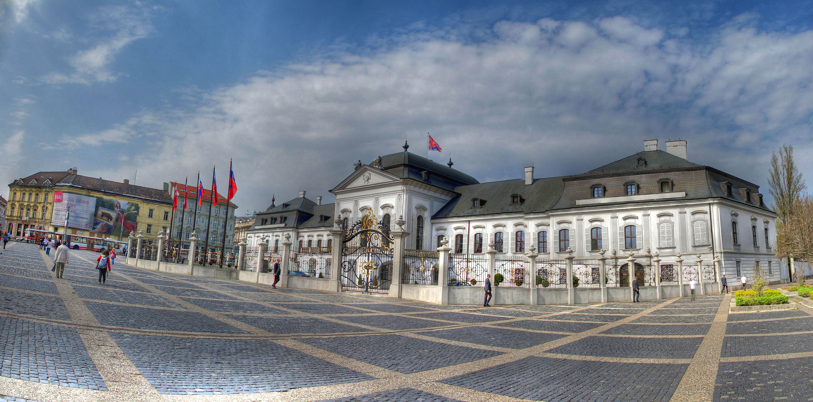 Presidential (Grassalkovich) Palace in Bratislava, Slovakia